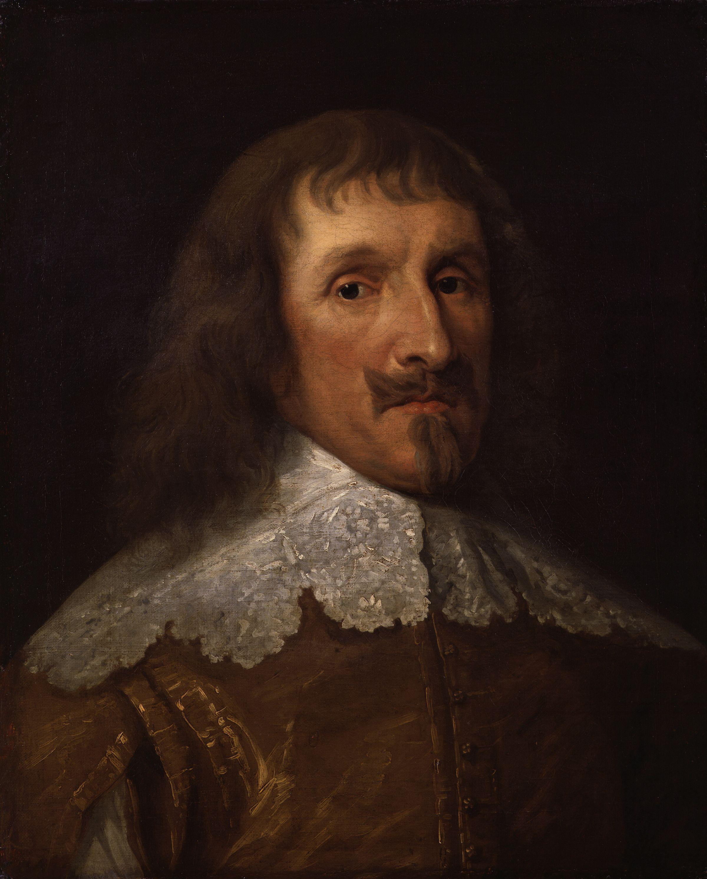 Philip Herbert, 4th Earl of Pembroke, by Sir Anthony Van Dyck (died 1641). All images in this batch have been confirmed as author died before 1939 according to the official death date listed by the NPG.